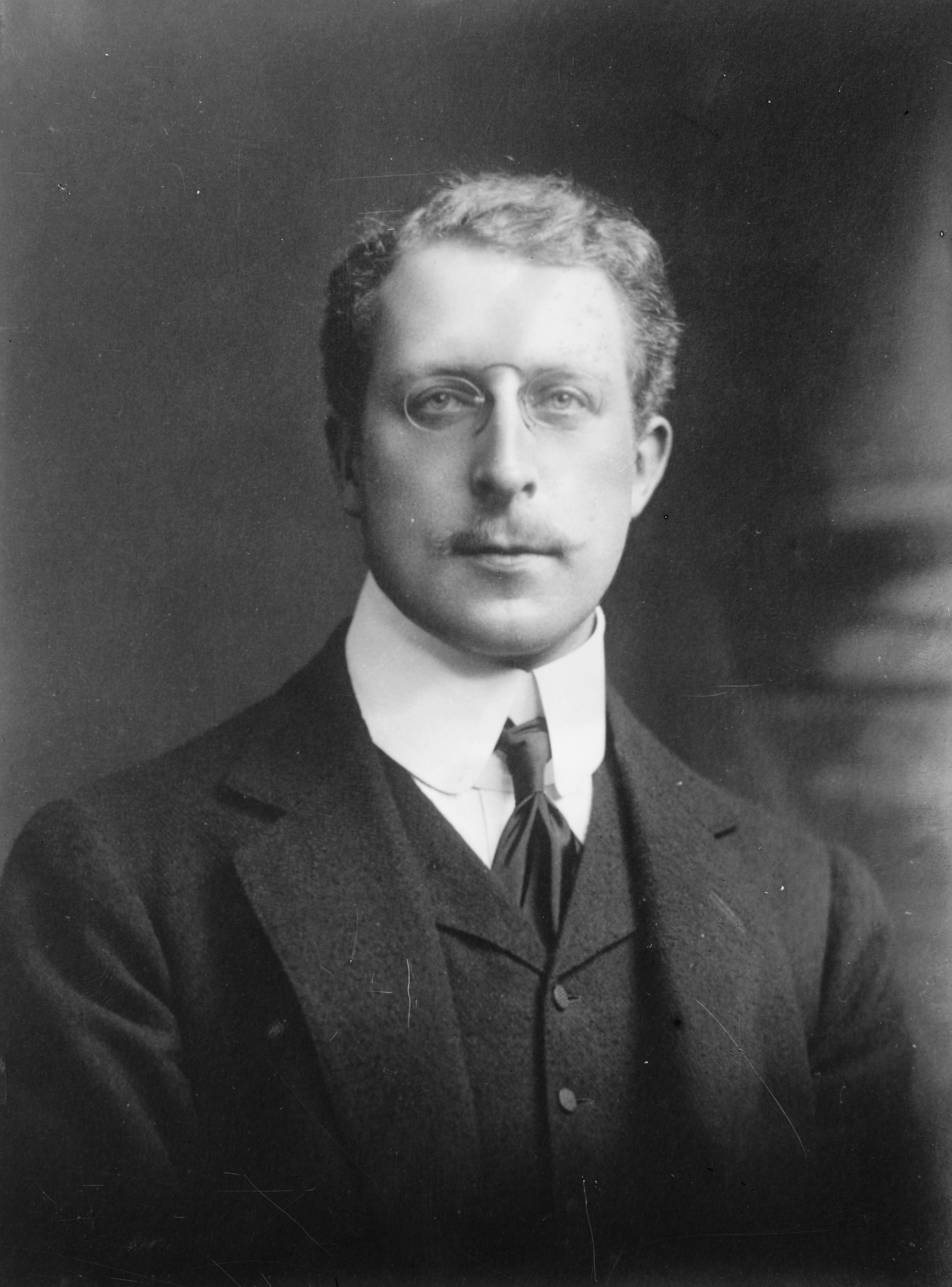 Albert I (1875 – 1934) King of the Belgians